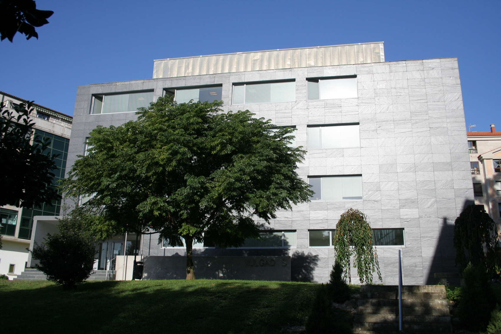 Courthouse in Cangas (Spain)